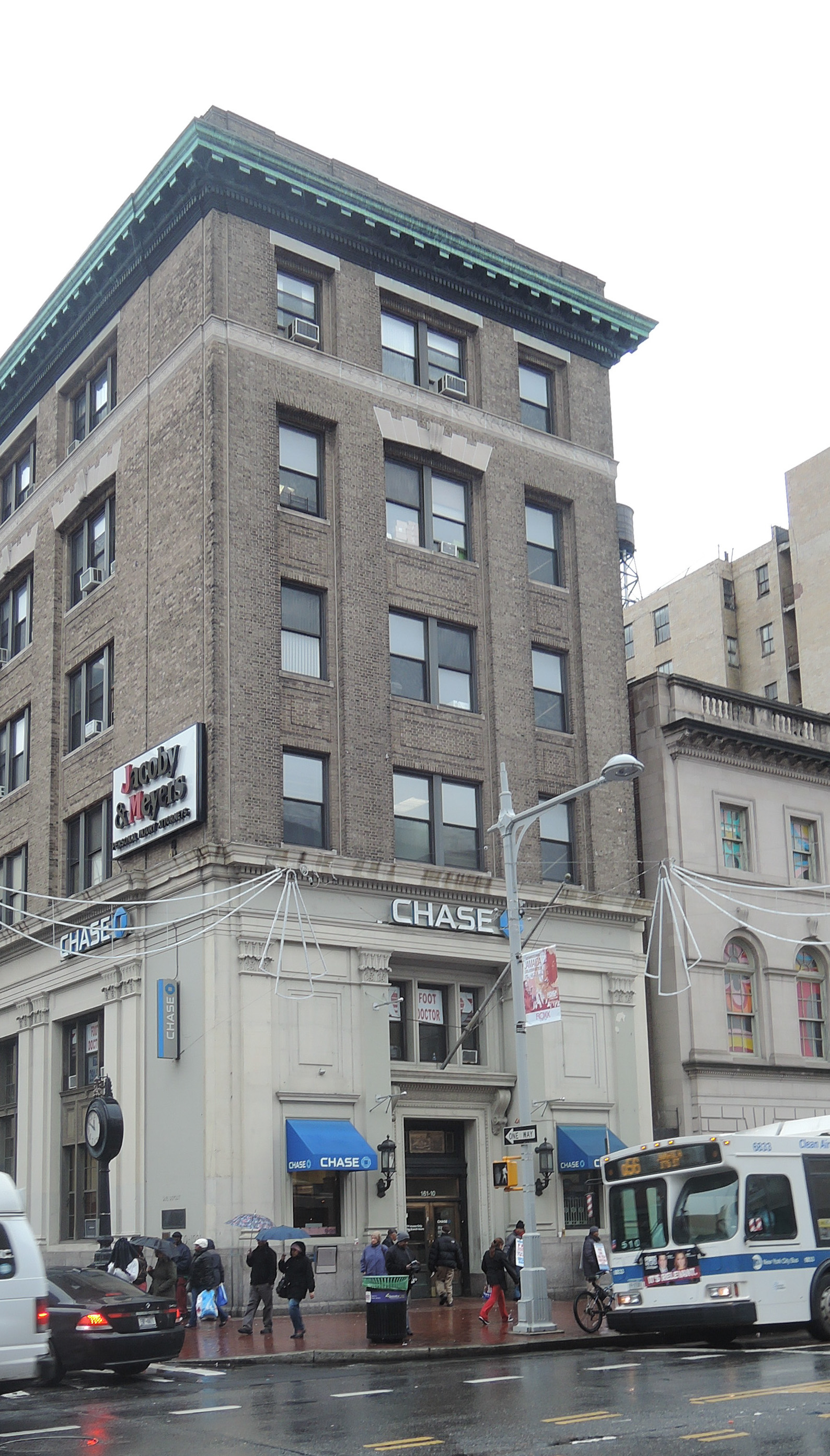 Looking south across Jamaica Avenue on a rainy midday.